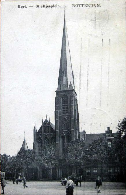 Martelaren-van-Gorcumkerk or Stieltjeskerk, catholic church in Rotterdam, Build 1885-1886, demolished 1976.